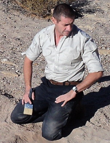 Picture of PhD Jorge Orlando Calvo, Paleontologist of Argentina